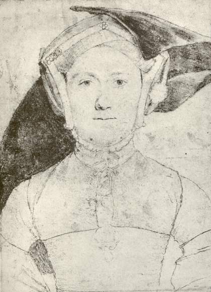 The woman was previously identified as Eleanor Brandon, later Eleanor Clifford, Countess of Cumberland, the daughter of Charles Brandon, 1st Duke of Suffolk, and Mary Tudor, the former Queen consort of France. Eleanor Brandon was wife of Henry Clifford, 1st Earl of Cumberland. However, the drawing is simply entitled An unidentified woman on the website of the Royal Collection.